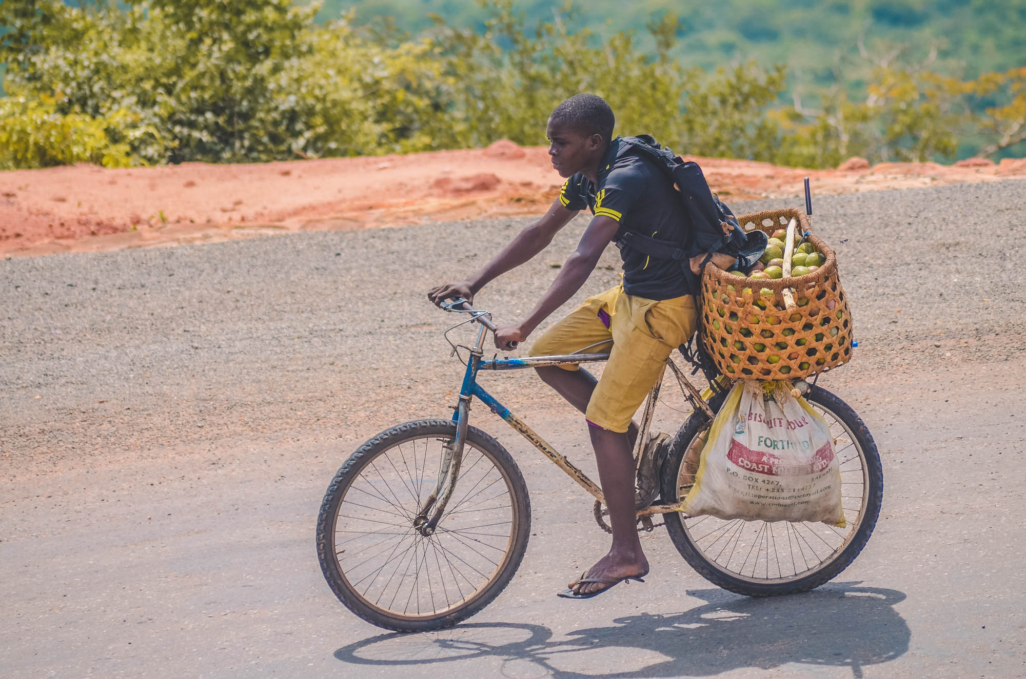 Newala is one of the five districts of the Mtwara Region of Tanzania. It is bordered to the west by the Masasi District, to the east by the Tandahimba District, to the south by the Ruvuma River and Mozambique, and to the north by the Tandahimba and Masasi Districts. According to the 2002 Tanzania National Census, the population of the Newala District was 183,930. Most of the inhabitants are from the Makonde tribe and uses mostly bicycles as means of transportation to the nearby places. This is an image with the theme "Africa on the Move or Transport" from: Tanzania